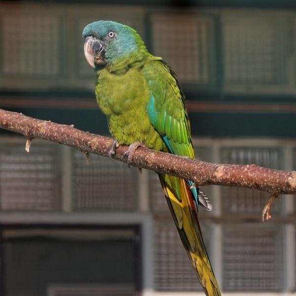 Blue-headed Macaw (also known as Coulon's Macaw) in captivity at Walsrode Bird Park, Germany.